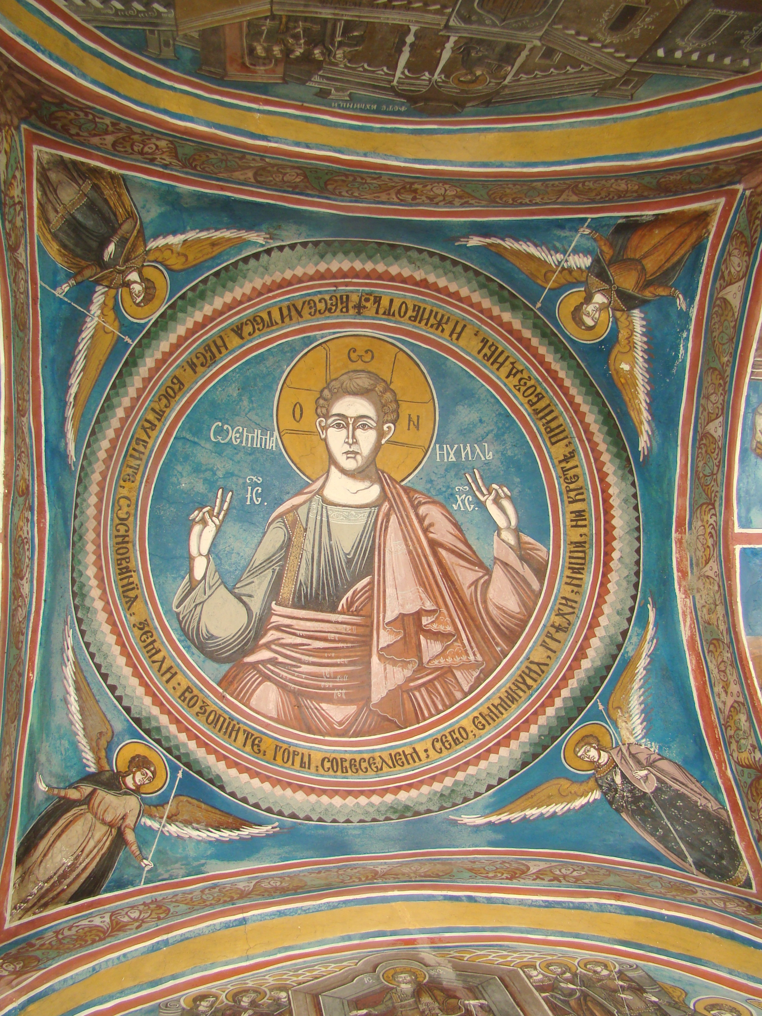 Saint Nicholas church in Olănești, Vâlcea county, Romania